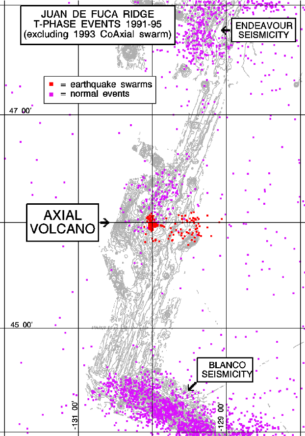 Bathymetric of the Juan de Fuca Ridge, calling to attention seismic activity at Axial Seamount